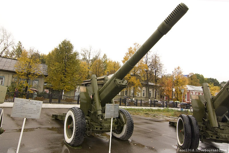 152-mm howitzer-gun M1937 (ML-20). Motovilikha Plants museum in Perm Russia.